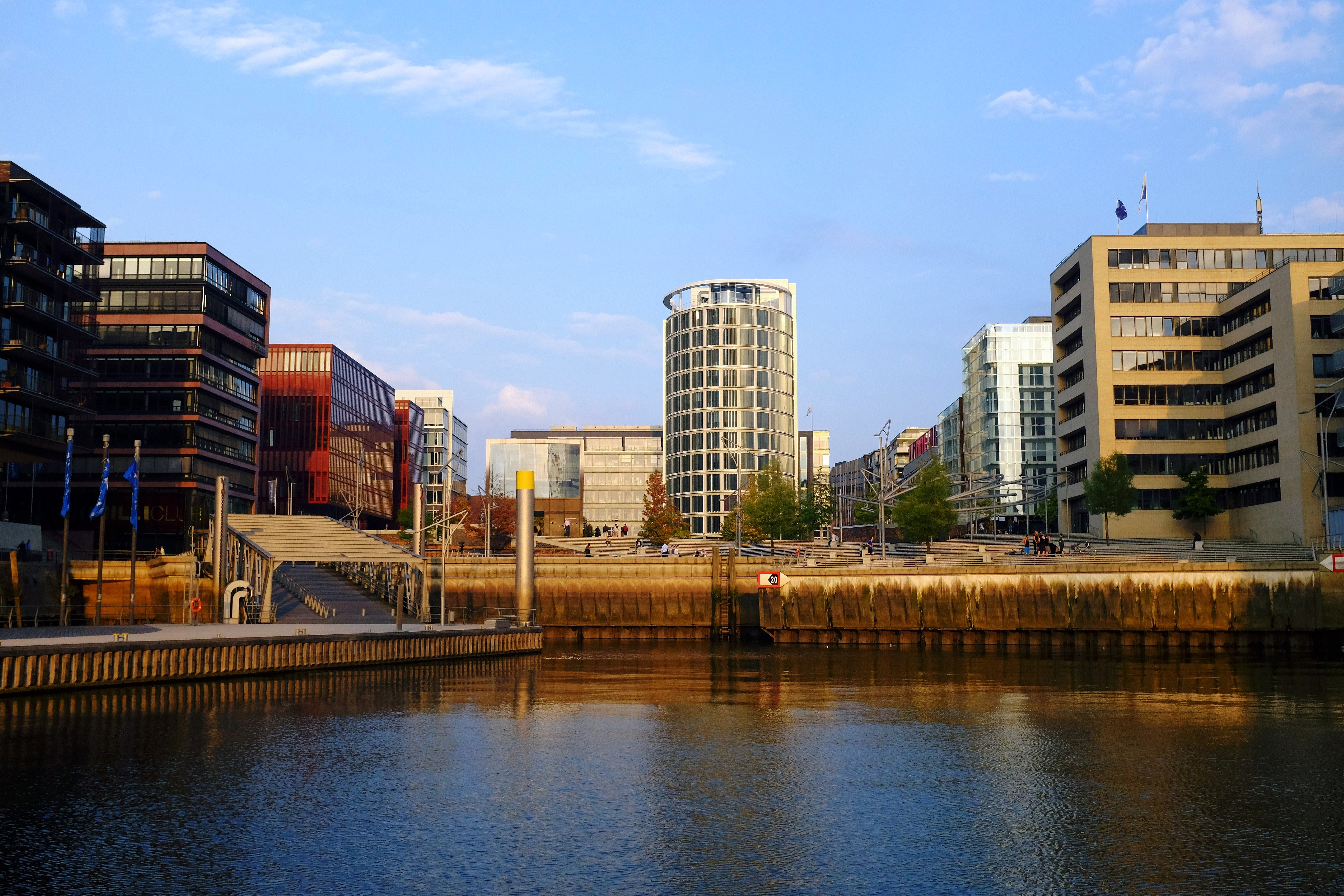 Redeveloped harbor in the HafenCity district in Hamburg